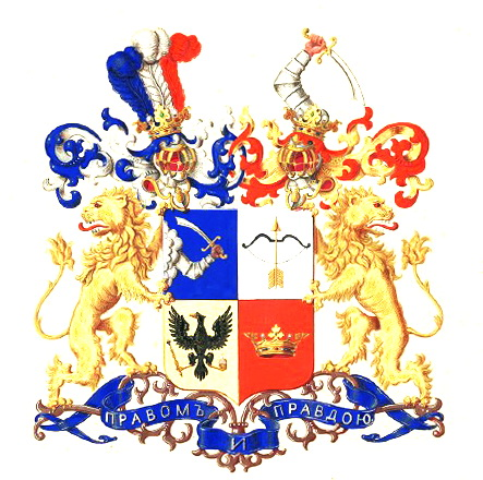 Coat of Arms of Rat'kow-Rozhnow family